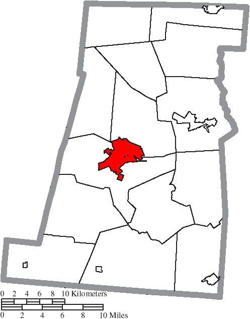 Map of the municipal and township boundaries of Madison County, Ohio, United States, as of the 2000 census, with the location of the city of London highlighted. Township borders are shown only in unincorporated areas in order to differentiate incorporated and unincorporated areas more clearly.